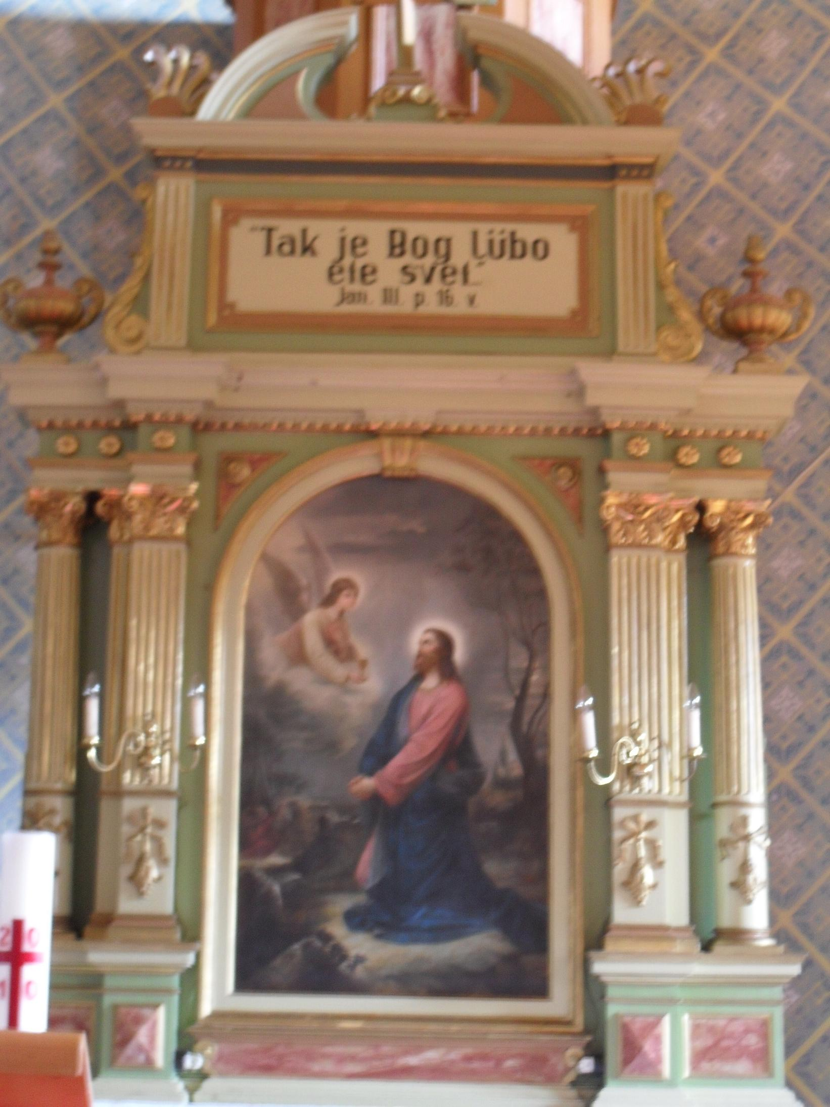 The High Altar in the Luther Church of Bodonci. The prekmurian inscription from the Bible, from the New Testament: For God so loved the world (John 3,16)